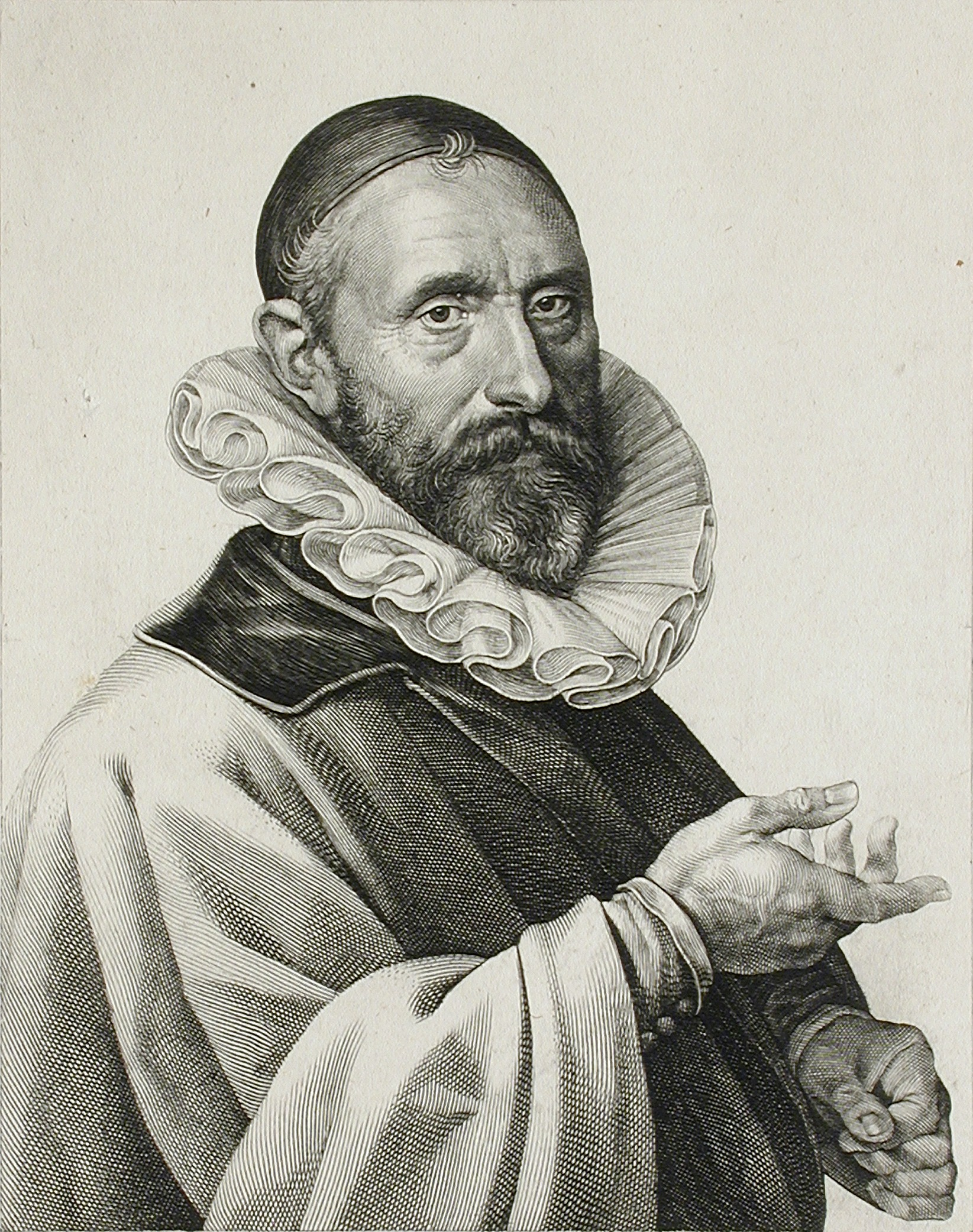 Holland, 1624 Prints; engravings Engraving Mary Stansbury Ruiz Bequest (M.88.91.370) Prints and Drawings